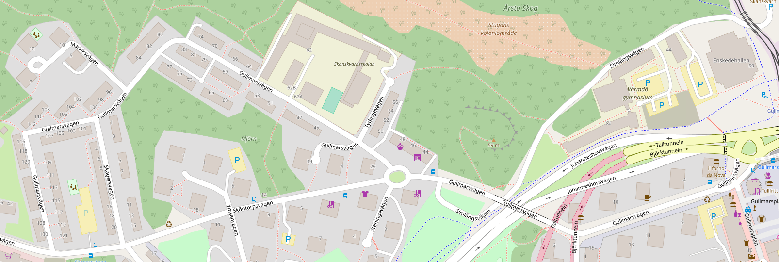 Open street map view of Gullmarsvägen This map may be incomplete, and may contain errors. Don't rely solely on it for navigation.